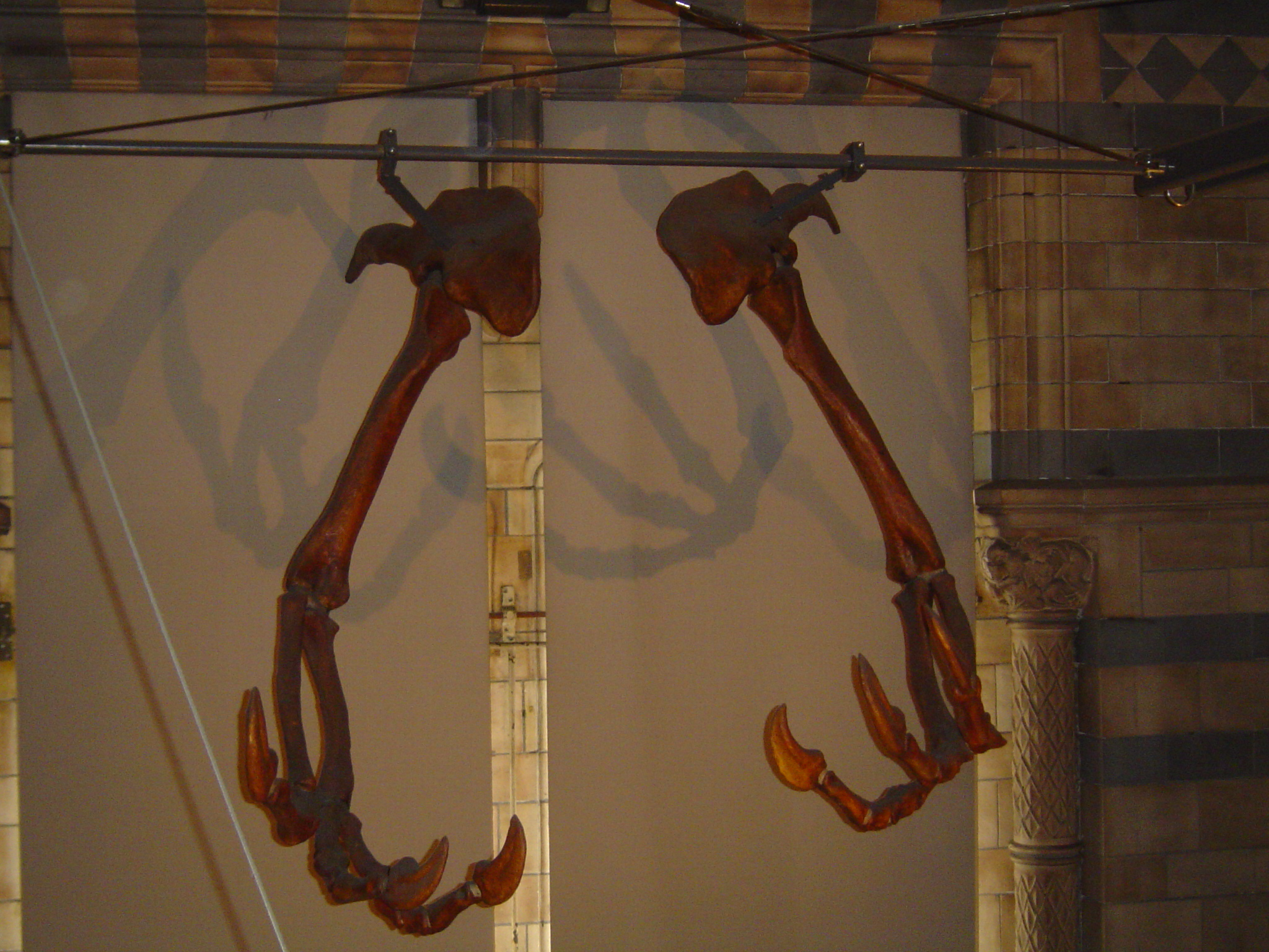 bones of Deinocheirus, self taken photo in Natural History Museum, London, August 2006